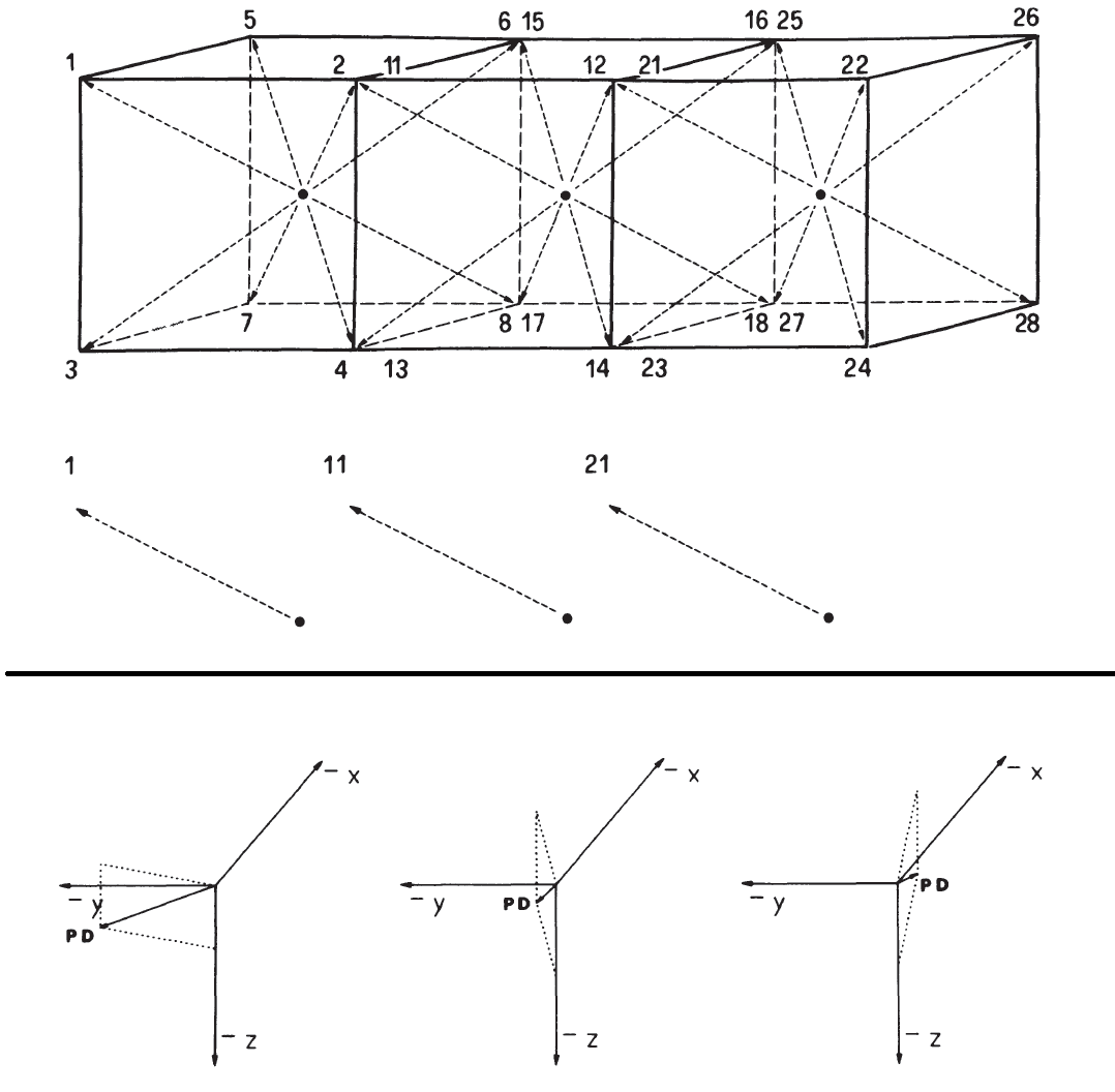 Apparatus and task. Top, layout of the work space. The animal was seated on a primate chair, 25 em away from the front lights. The center of the center cube was aligned with the body midline at shoulder height. The animal performed 3 sets of movement directions in the left, center and right parts of the work space. Black dots indicate the 3 movement origins within each part of space where monkeys made equal-amplitude (8.7 cm) movements of common origin in 8 different directions (arrows). Certain push-buttons are labeled by 2 numbers (2, 11; 12,21; etc.) because they were targets of movements of two different origins. Numbers identify directions of movement. Bottom, triplet (1- 11-21) of movements of similar direction performed across the work space. Down. Spatial orientation of the vectors representing the preferred direction (PD), in the left, center,and right parts of space of apremotor cortical cell. Note the change in the orientation of this cell's PD.